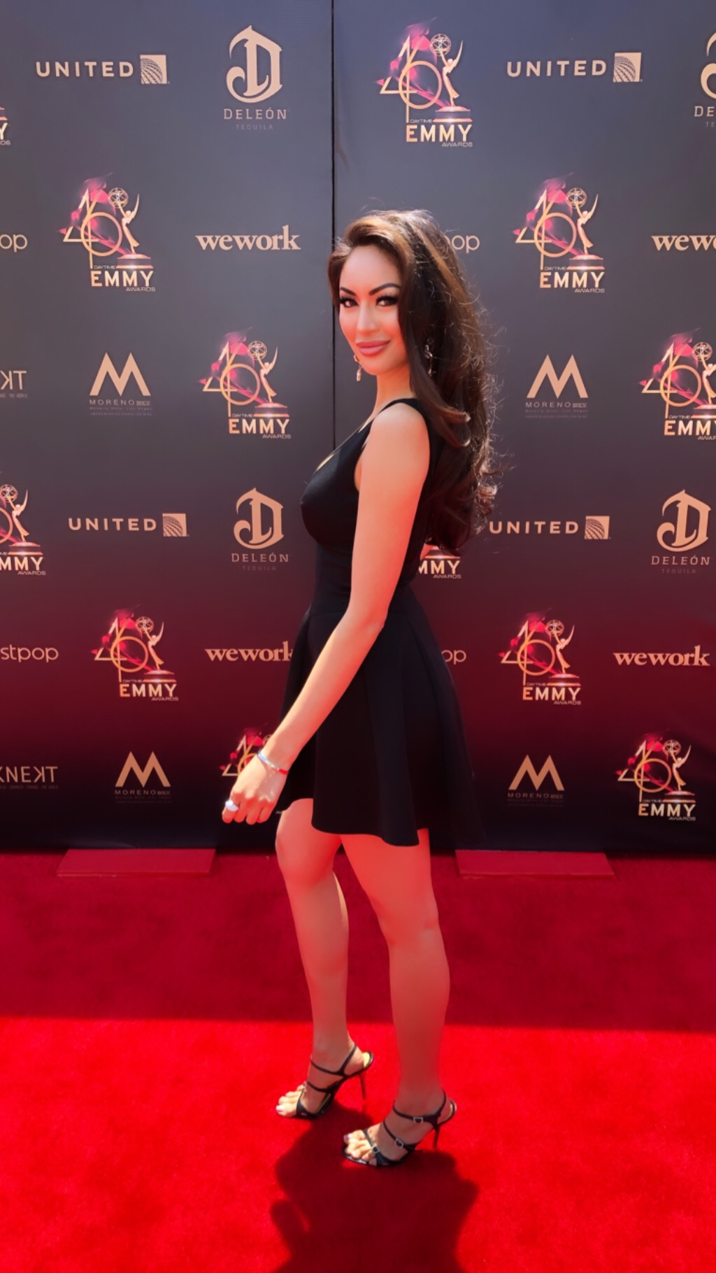 Riza Raquel Santos attending the 2019 Daytime Emmy Awards in Pasadena, California